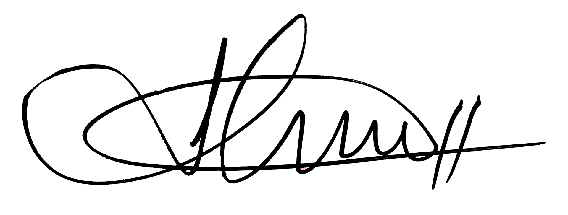 Autograph of Alice Sara Ott